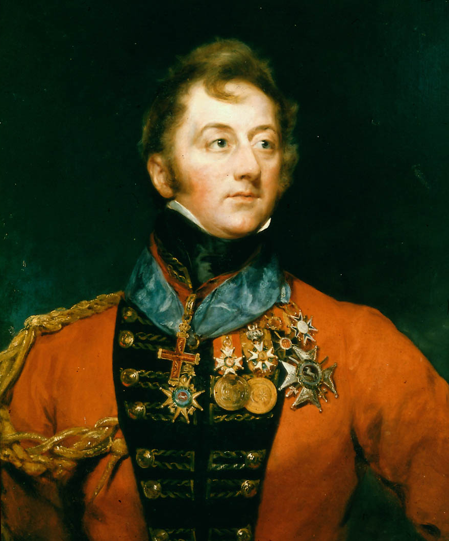 Painting of Sir Charles William Doyle